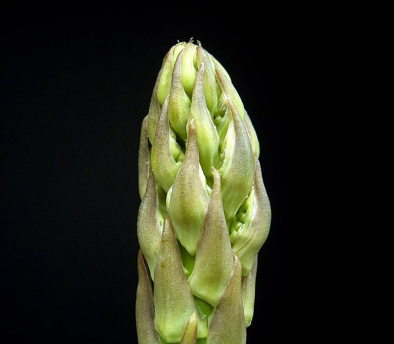 Asparagus officinalis